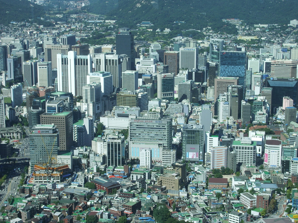 Looking north-northwest into the city core. Visible landmarks include the city council, City Hall, Lotte Department Store, and the Presidential Blue House. National Geographic, for its March 1969 issue, had taken a photo of downtown Seoul from this vantage point (though at the foot of the tower, as the tower was not complete until later in 1969). There were virtually no buildings taller than 10 stories in that photo, and aside from the Blue House (much smaller then than now), the city is practically unrecognizable. The grandest building in the 1969 view, the Central Government Building (formerly Japanese Governor-General Building), was demolished in 1995, and even if it remained standing, it would be very obscured by new skyscrapers in this view.